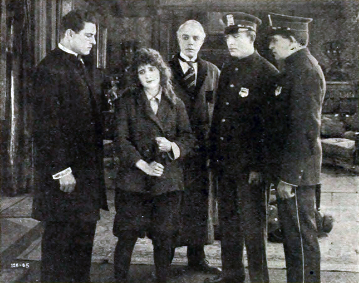 Illustration used in a review in The Moving Picture World for the American film Destiny's Toy (1916) with John Bowers, Louise Huff, and J. W. Johnston.